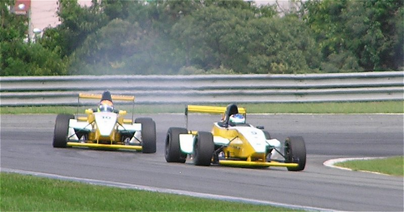 Formula Renault Brasil: #9 Bruno Barbosa(right, Prop Car), #10 Douglas Soares(left, Prop Car)